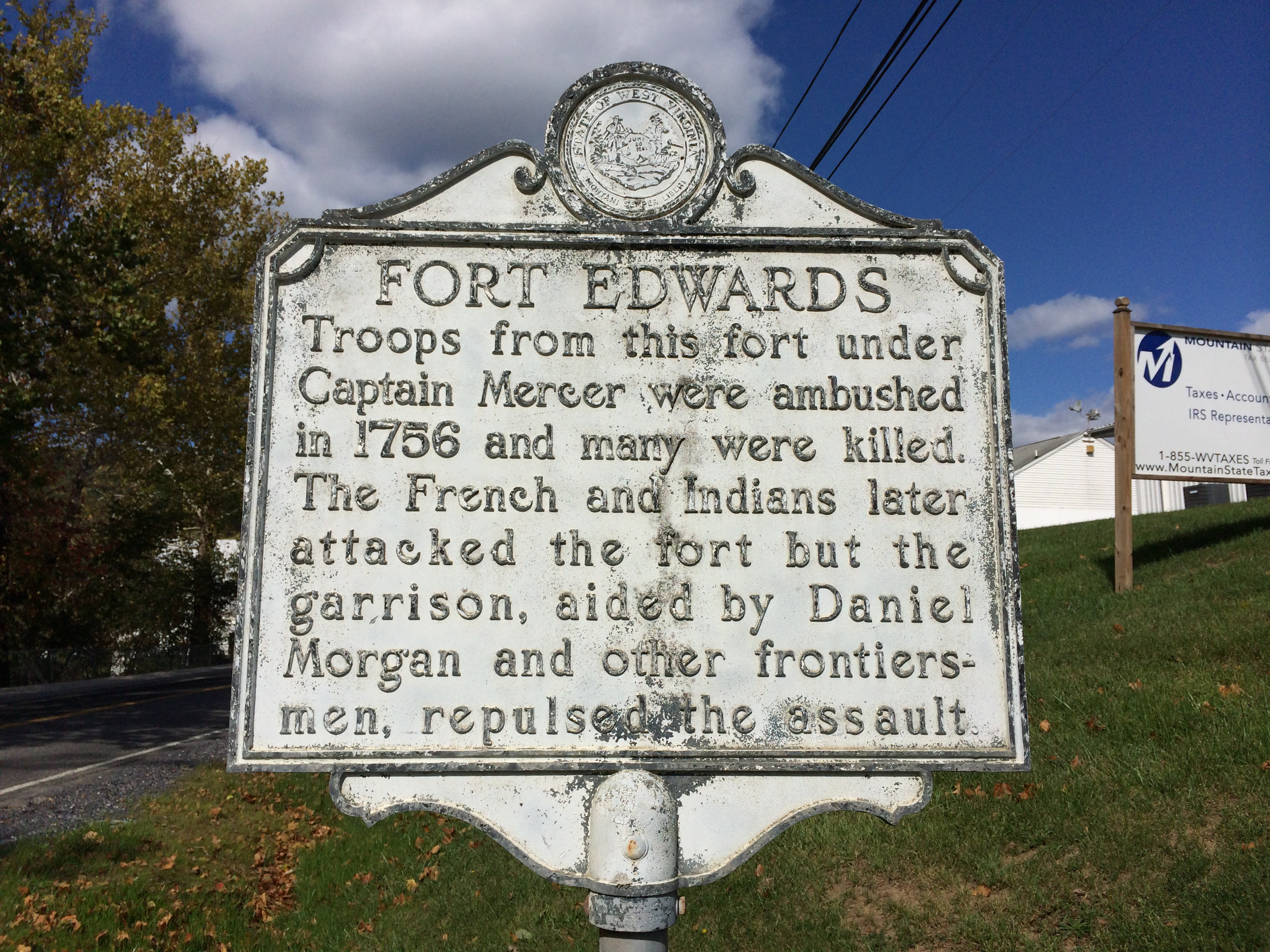 A West Virginia state highway historical marker illustrating a brief history of Fort Edwards near present-day Capon Bridge in Hampshire County, West Virginia. The marker reads: "Troops from this fort under Captain Mercer were ambushed in 1756 and many were killed. The French and Indians later attacked the fort but the garrison, aided by Daniel Morgan and other frontiersmen, repulsed the assault." The highway historical marker is located along the Northwestern Pike (U.S. Route 50) in Capon Bridge, West Virginia. Photographed by Justin A. Wilcox of Washington, D.C. on October 5, 2014.